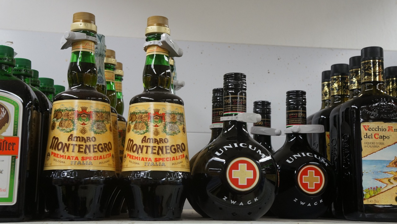 bottles of Amaro Montenegro and Unicum on retail shelves